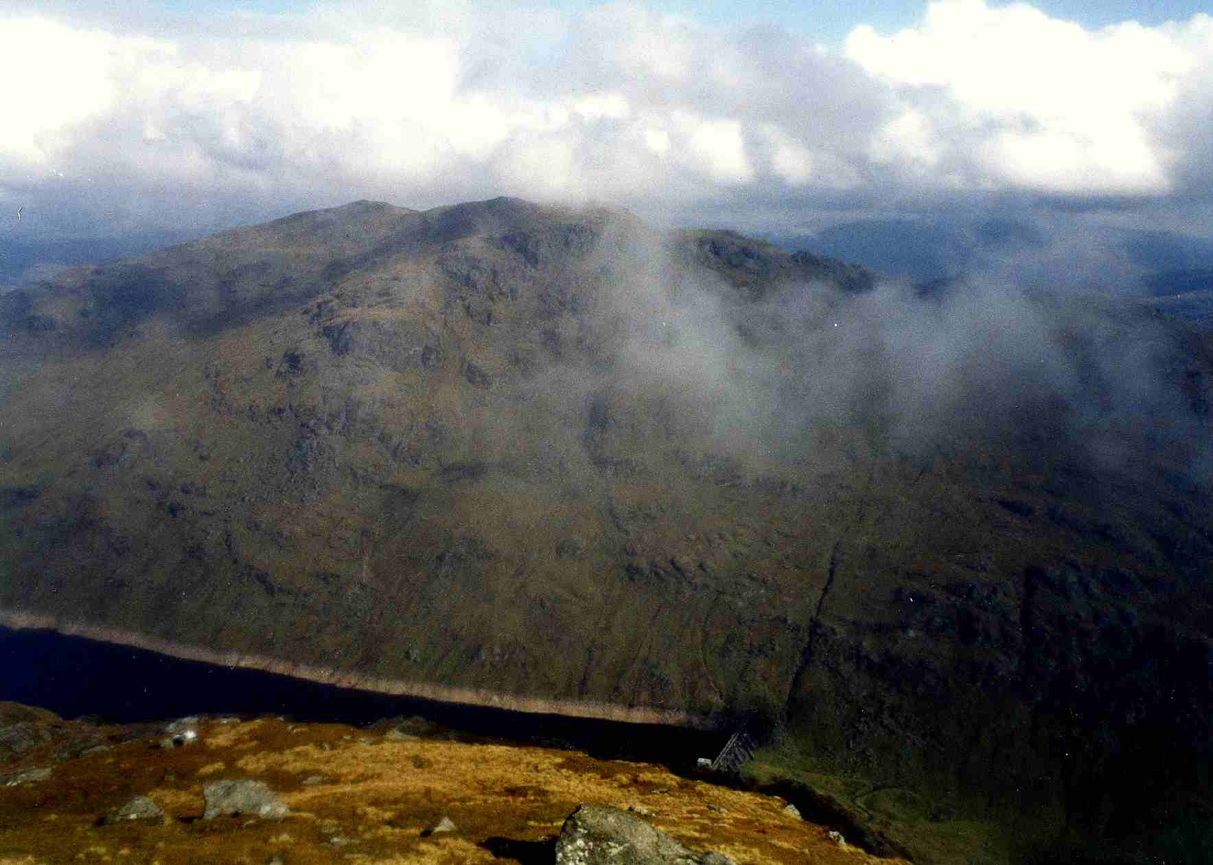 Personal picture taken by Mick Knapton